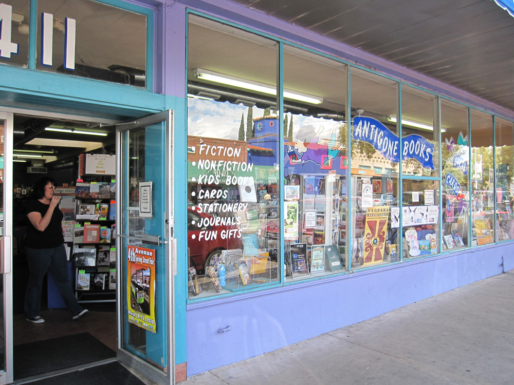 In Tucson, Fourth Avenue, located near the University of Arizona campus, is full of alternative and hippie-oriented shops and restaurants. It is the closest thing Tucson has to San Francisco's Haight-Ashbury or Los Angeles's Venice Beach. This is probably my favorite shop on Fourth Avenue: Antigone Books. This independent bookseller has many books that deal with feminist and other progressive topics. I can also pick up gifts and other items of similar interest; this is the place to come to for a refrigerator magnet that says "Sorry boys, I am lesbian." In 2001, Tucson was my poverty-era home. This was one of the few places in town I felt home at.